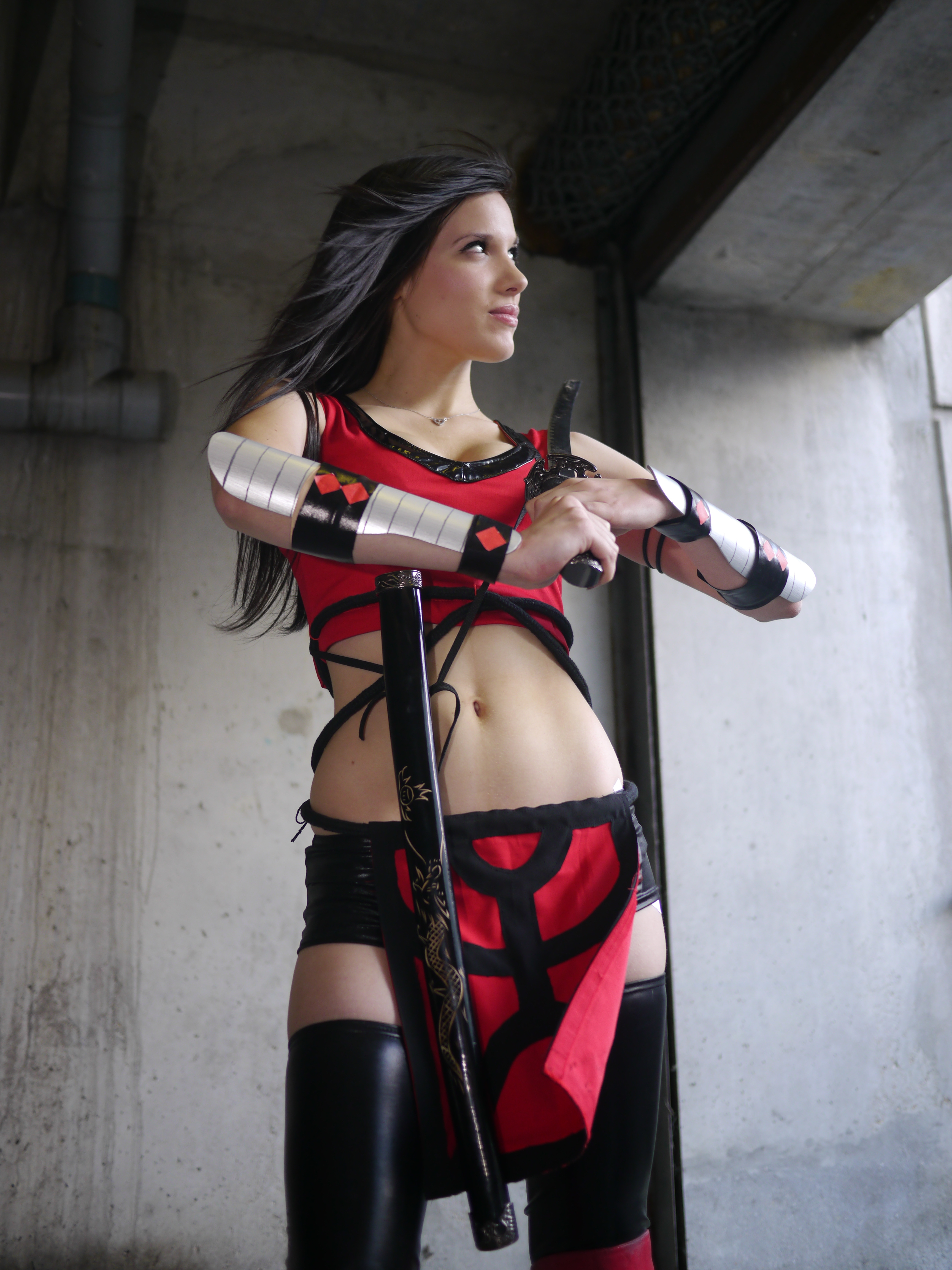 This photo was taken on June 30, 2011 in Seine-St.-Denis, Ile-de-France, FR, using a Panasonic DMC-GH2.